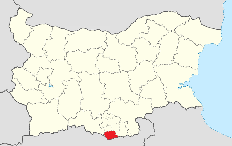 Location map of Kirkovo Municipality within Bulgaria and Kardzhali province